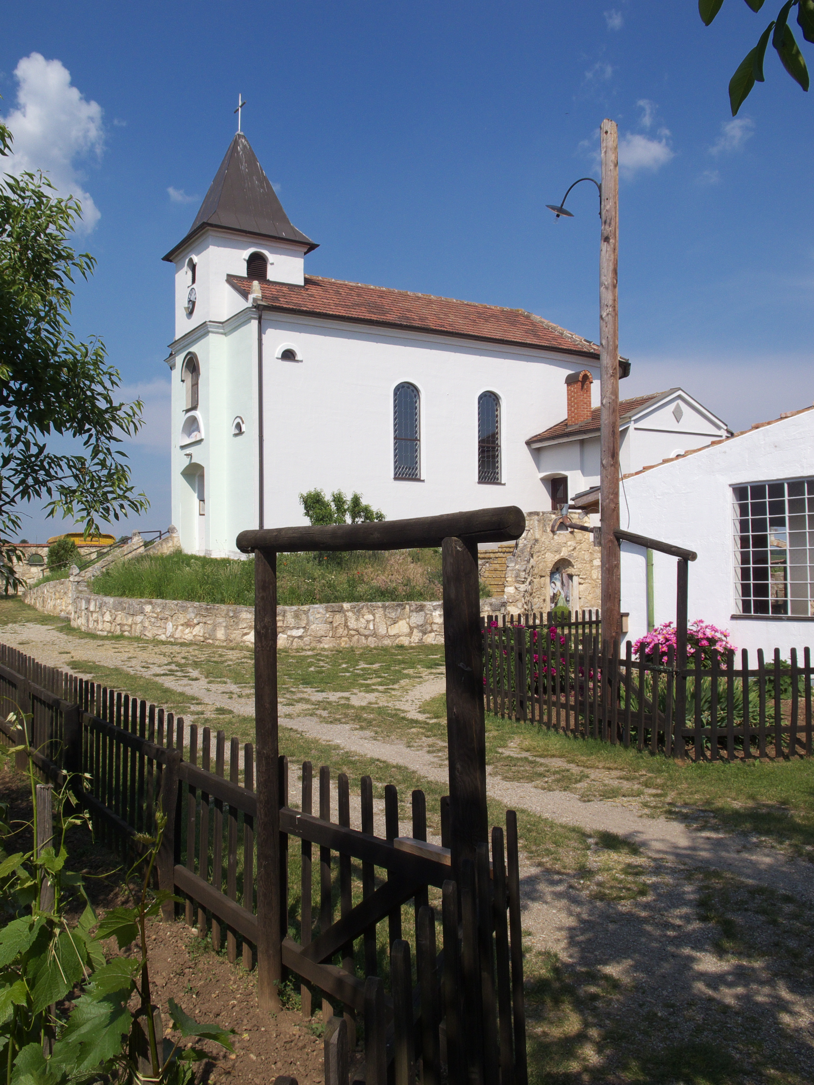 Catholic Saint Joseph church in the Möchhof village museum.